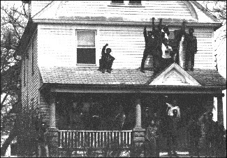 The Black United Students 1st Black culture center where many events of the 1st Black History Month celebration took place.